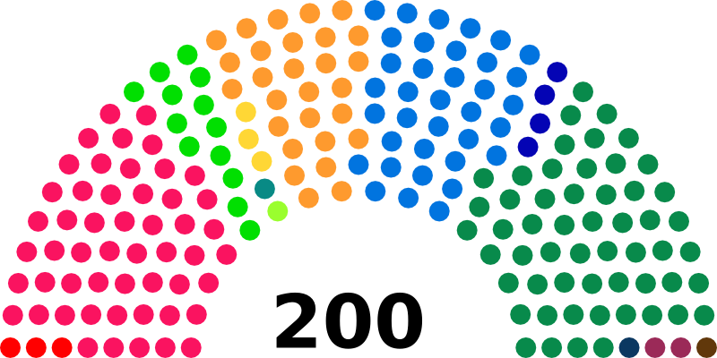 Seats diagramme of Swiss National Council (2003)